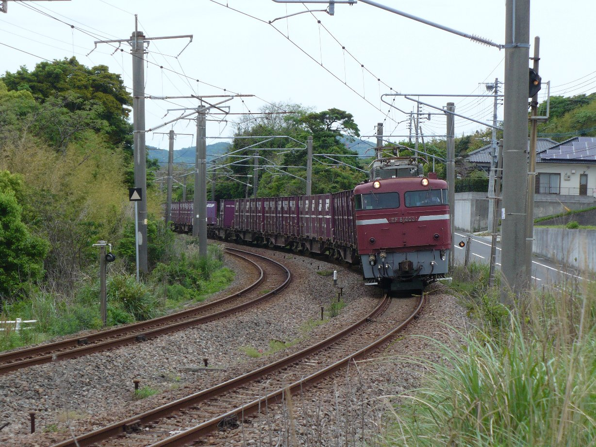 Akasegawa passing loop of Hisatsu Orange Railway, Akune, Kagoshima, Japan. The passing southbound freight train is hauled by Class EF81 electric locomotive EF81-403.